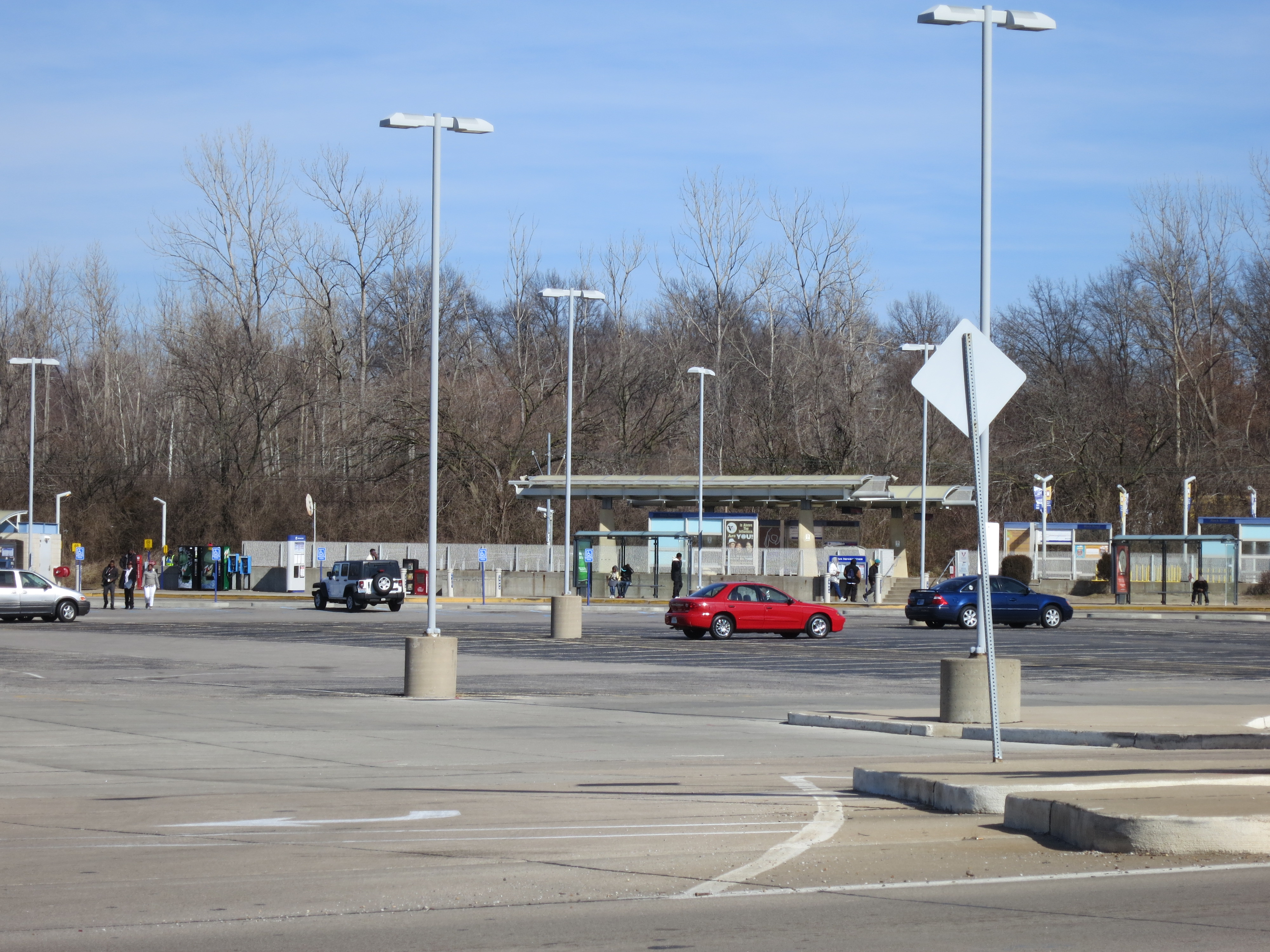 Metrolink Station in North County - Rock Road Station